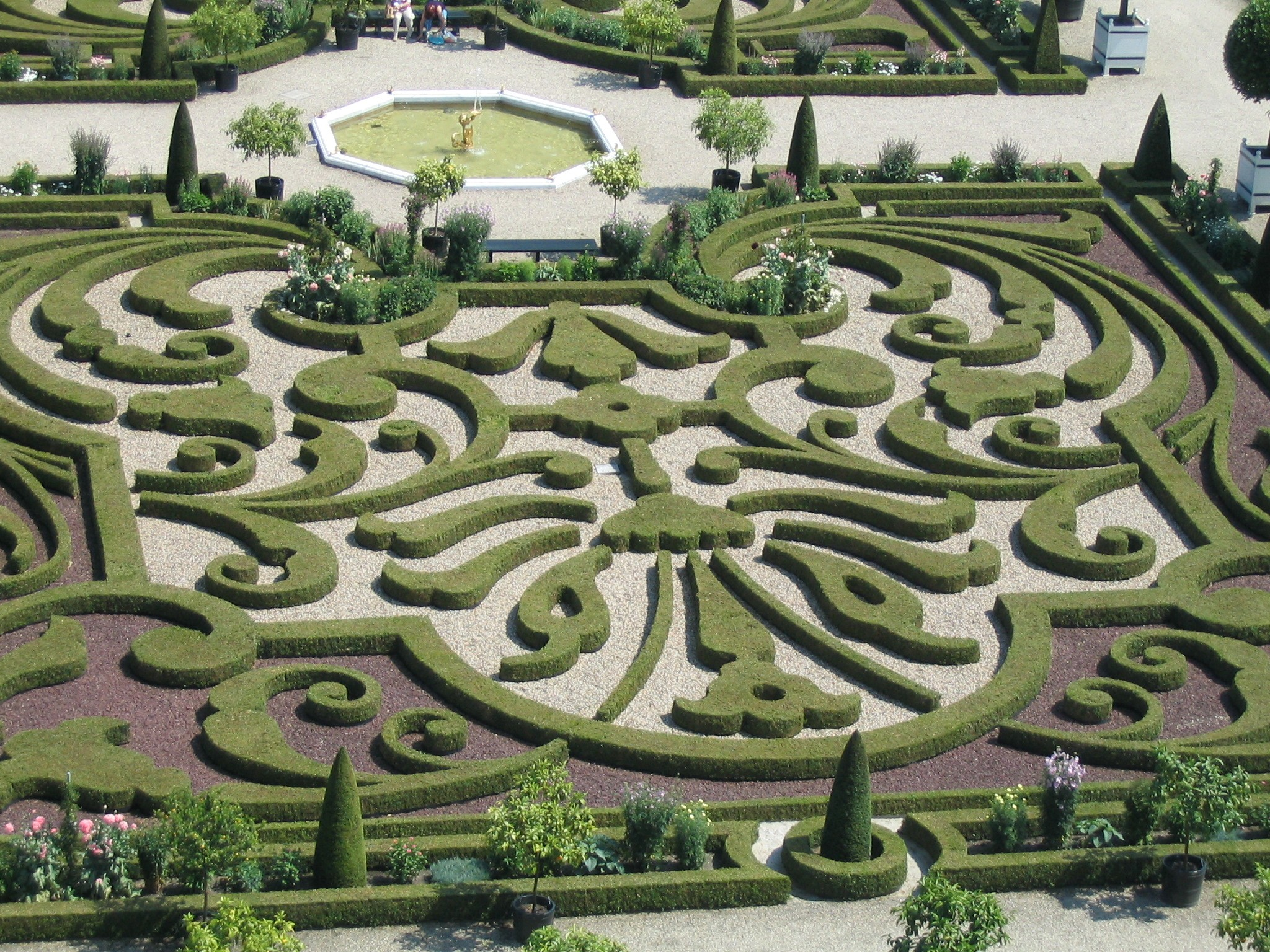 Garden of the Loo Palace, Apeldoorn, Netherlands - Garden in French Style